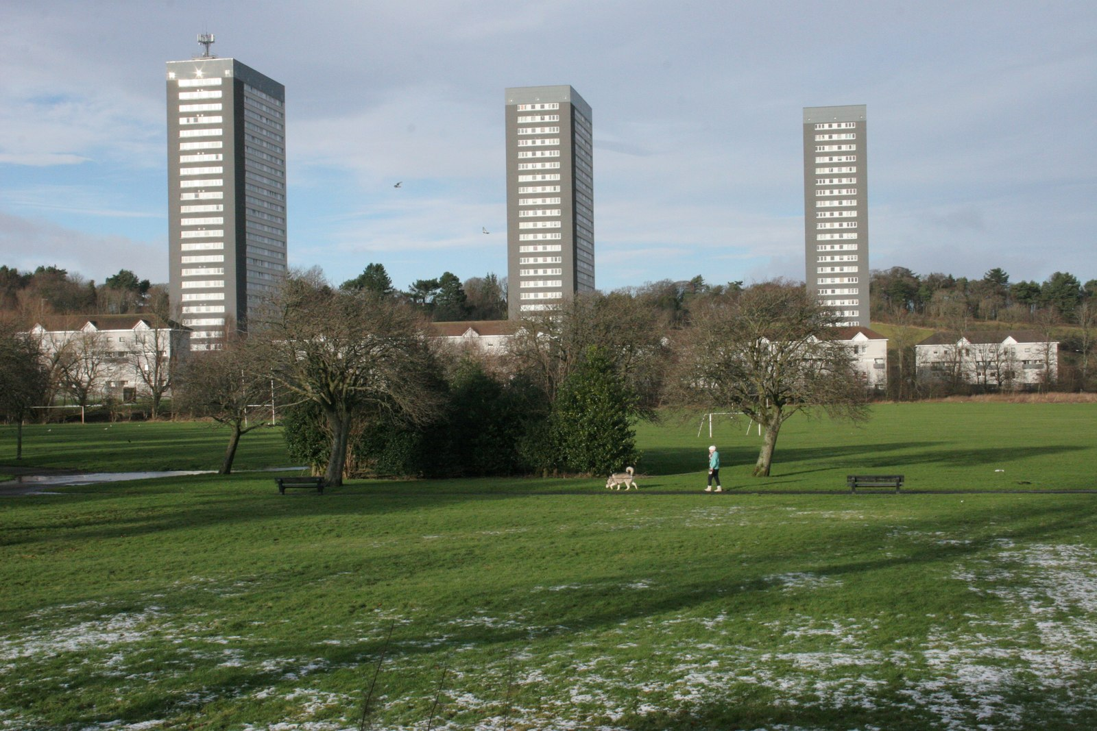 Kennishead Flats